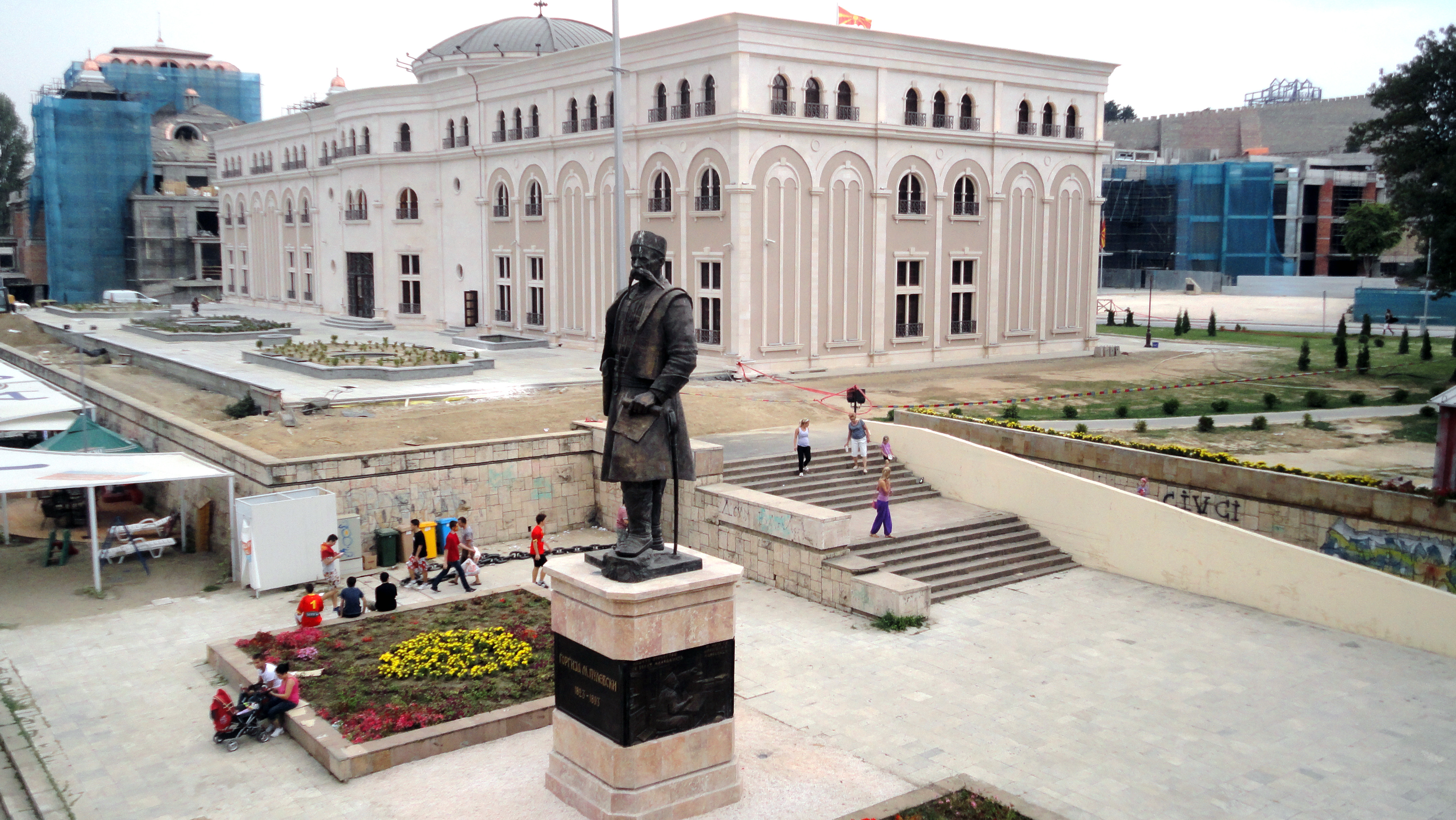 Museum of the Macedonian Struggle